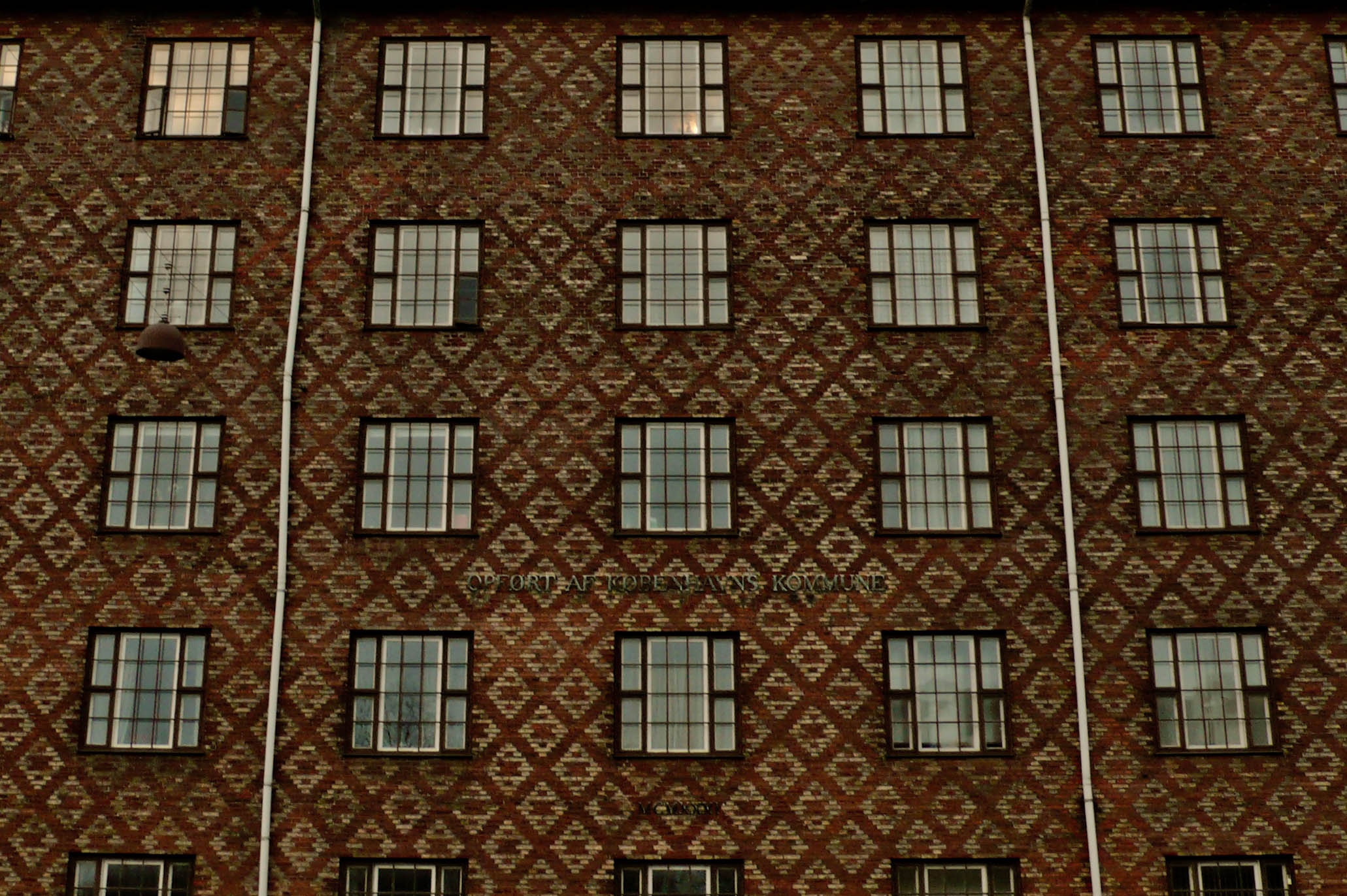 Brick work of Linoleumshuset, a building by the architect Povl Baumann in Copenhagen, Denmark